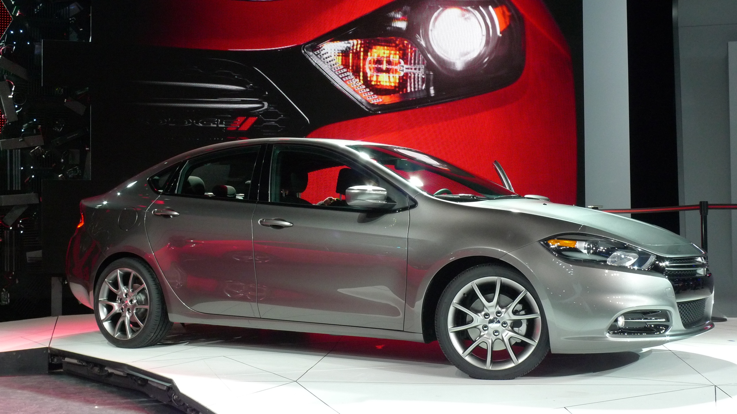 Dodge Dart Rallye